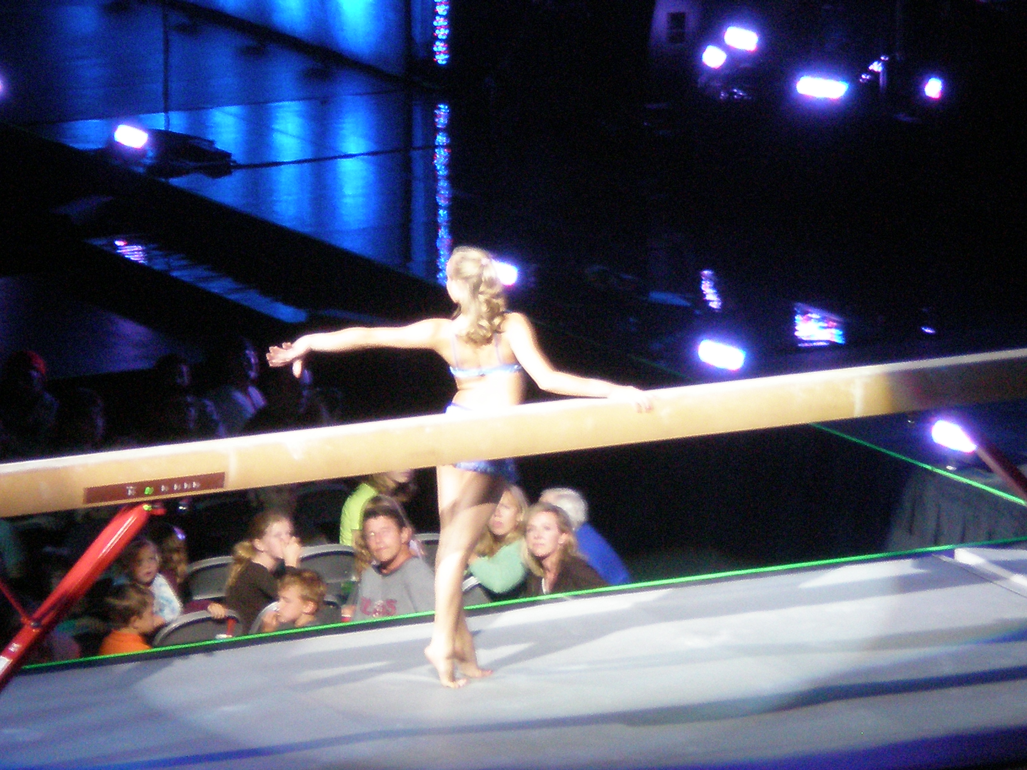 Nastia Liukin performing at the 2008 Tour of Gymnastics Superstars in San Jose, California.